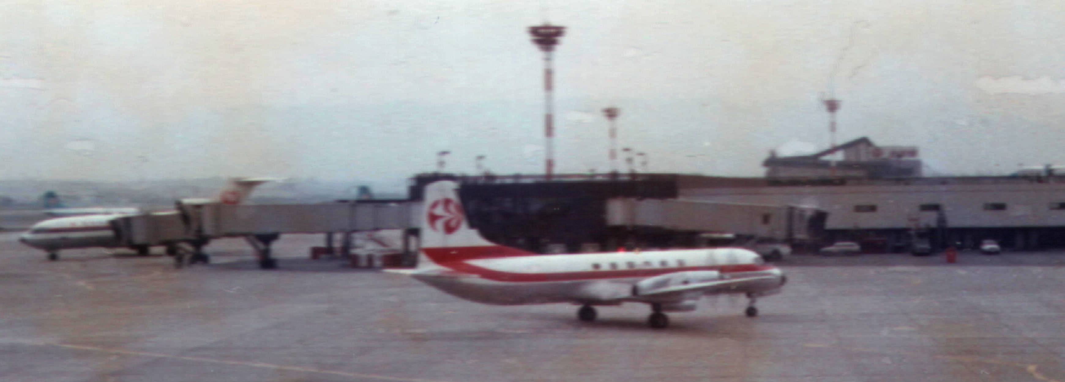 YS-11A, TDA, Osaka International Airport 1971